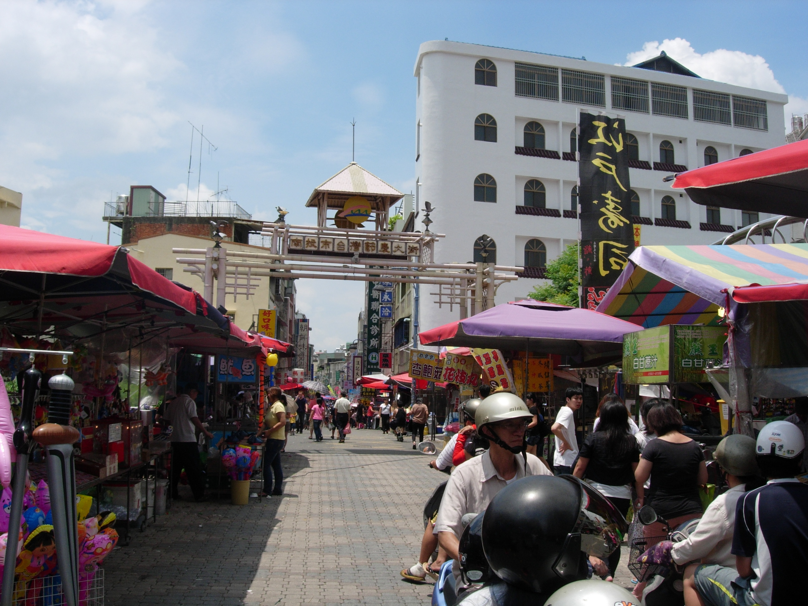 Nantou City Festival Stree at Jhong Shan st.